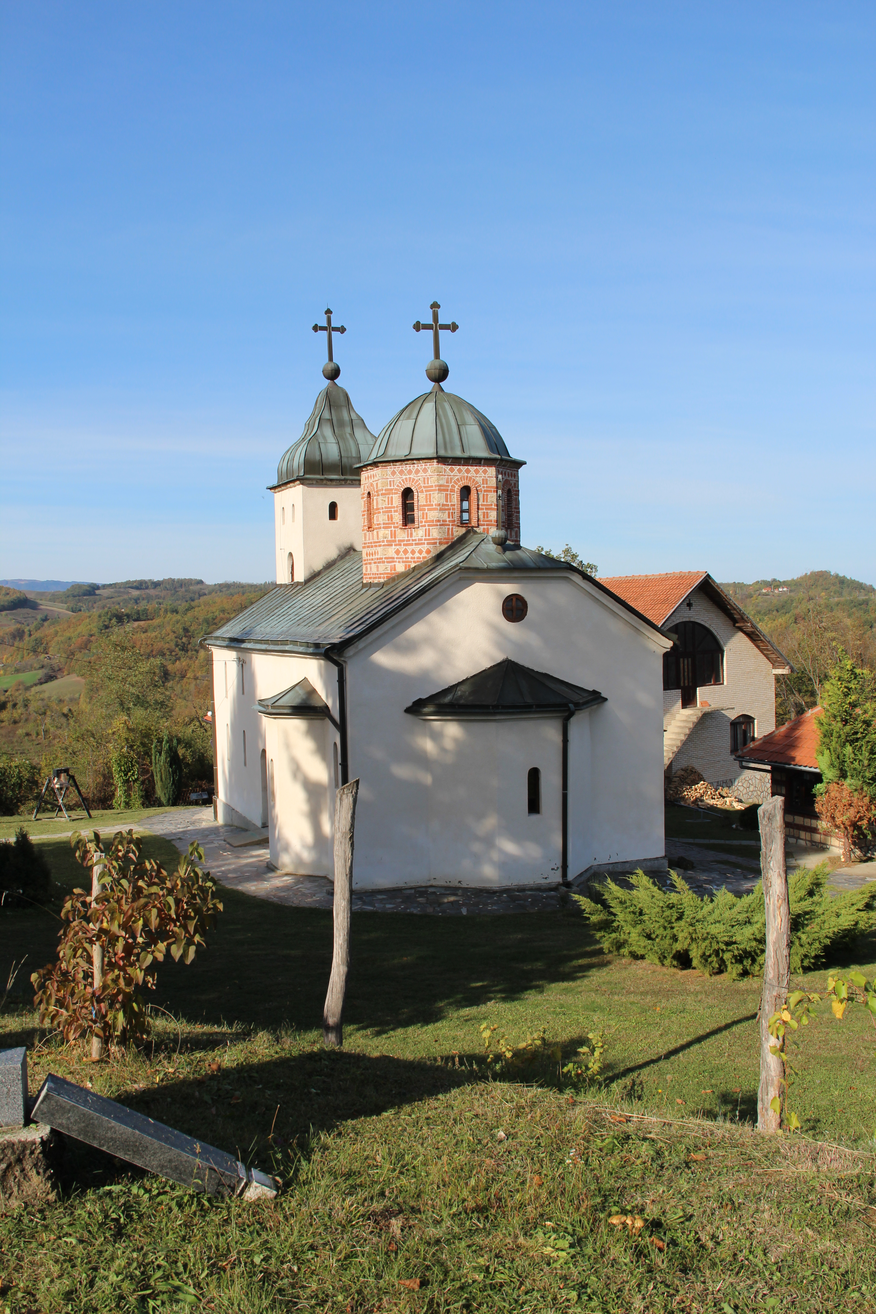 Lopatanj village - Municipality of Valjevo - Western Serbia - church